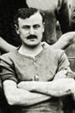 Hanks depicted on an Arsenal postcard - 1912/13.